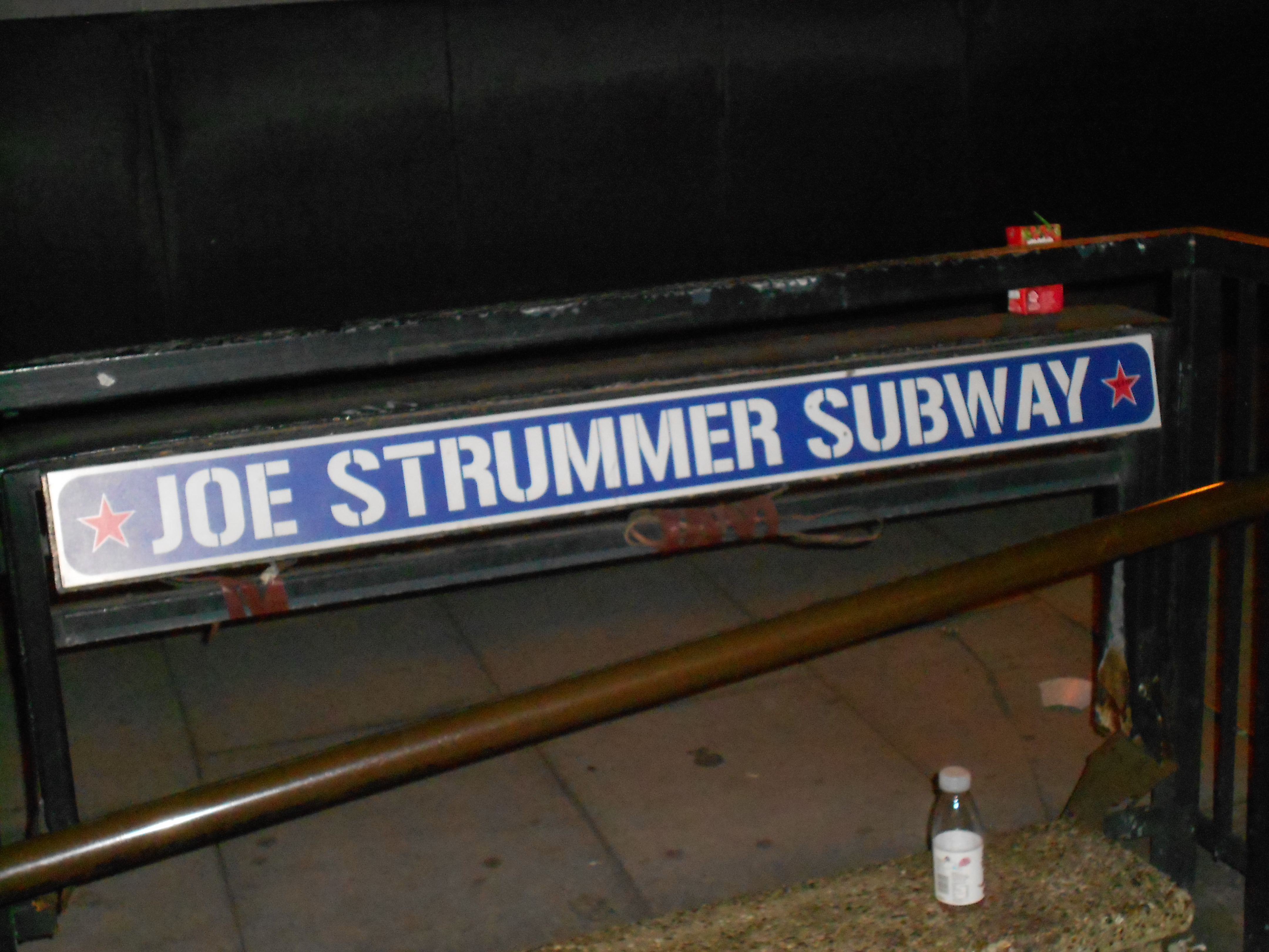 Joe-Strummer-Subway, Edgware Road / Harrow Road, London